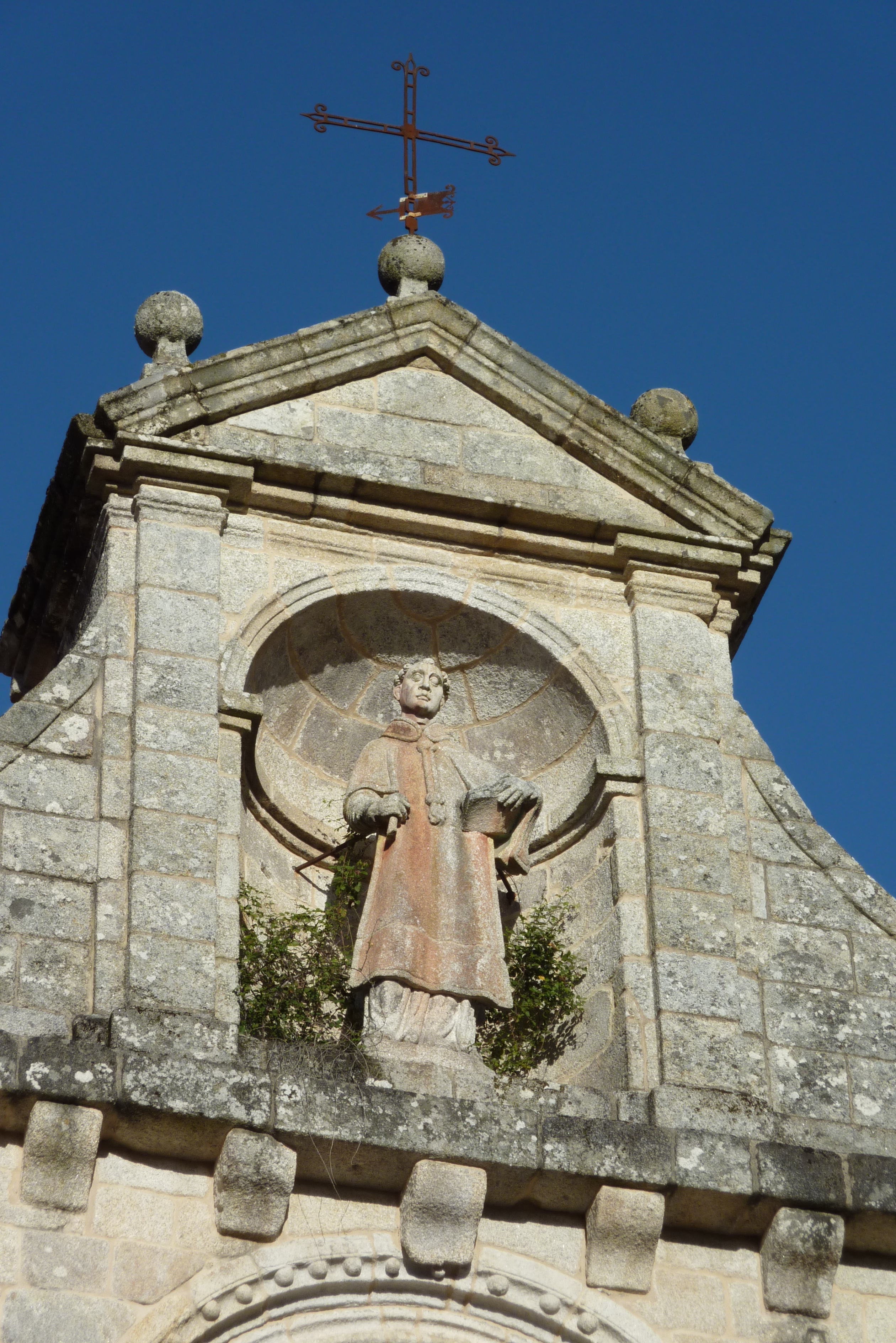 Church of Santo Estevo de Ribas do Sil in Luíntra